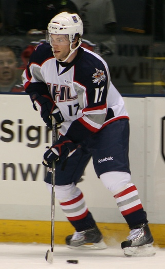 Mark Cullen at the 2010 AHL All-Star game